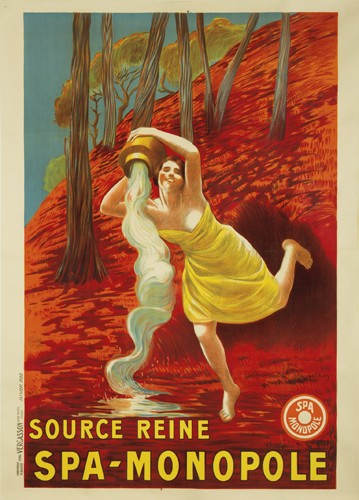 Poster Source Reine SPA Monopole